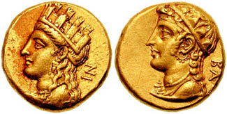 CYPRUS, Salamis. Nikokreon. Circa 331-311/10 BC. AV Stater (8.29 gm). Persic standard. Draped bust of Aphrodite left, hair rolled above forehead and falling in long wavy strands to front and back of shoulder, wearing beaded necklace, triple-drop earring, and turreted crown, NI behind / Draped bust of Aphrodite left, hair in tight ringlets falling before ear and down back of neck, wearing torque (open end at front of her neck), beaded hoop earring, fillet, and crown decorated with semicircular plates; BA behind. McGregor 804 = Traité II 1188, pl. 129, 10, (same dies). EF. (See color enlargement on plate 1.) ($10,000)